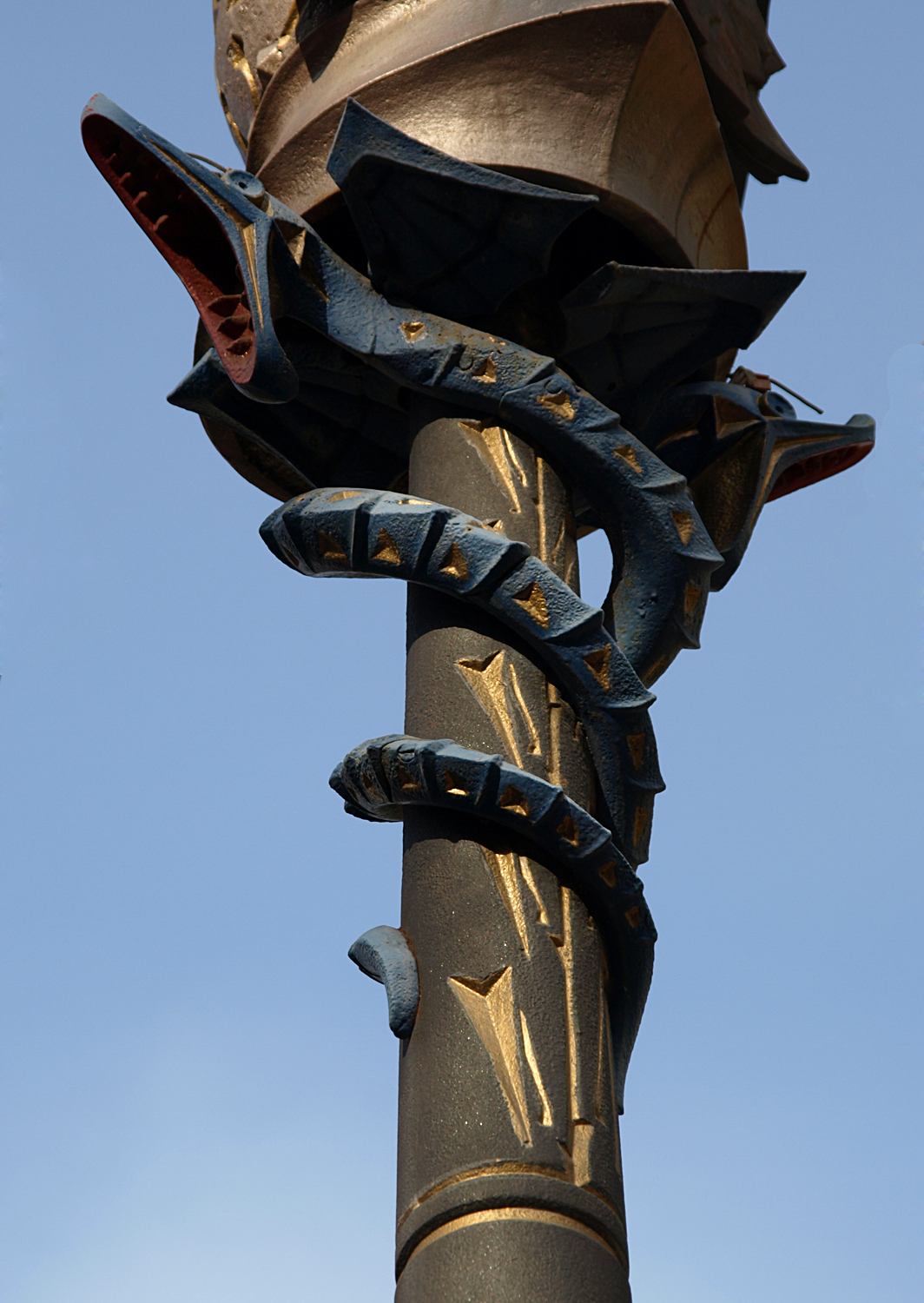 Fanals — Catalan Modernisme (Antoni Gaudí, 1878)